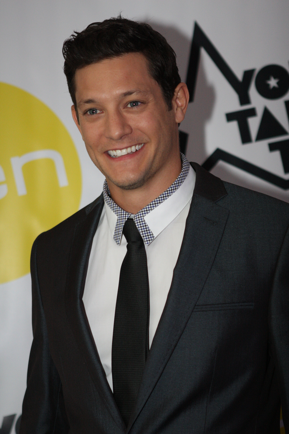 Young Talent Time Media Event At Luna Park Sydney Young Talent Time hits Australian television this Sunday night and we're fired up to watch it. The show is a revamp of the hit 80s talent show that helped make talent such as Dannii Minogue and Tina Arena household names. You'll be glad to hear that Tina is back as a judge on the new show, alongside Chucky Klapow and host Rob Mills. The show will feature a core group of ten young singers aged 16 and under who will perform a series of songs each weekend. Australian teens (and many of their parents) are tipped to religiously tune in and Ten thinks they have a real ratings winner on their hands, and we tend to agree. The show might just help find Australia's next answer to Justin Bieber, Selena Gomez, Cody Simpson and Miley Cyrus? There are no contestants in the first episode, as the show looks back on its long history and presents the new YTT Team. Four contestants will compete in the show from the second week. YTT includes a live band under Musical Director John Foreman, with live singing and performing. In a new and creative promo you see YTT youngsters performing 'Jumpstart' and its rather catchy stuff. The new YTT Team are: Georgia-May Davis (aged 16, Sydney) Adrien Nookadu (aged 15, Sydney) Lyndall Wennekes (aged 15, Sydney) Tia Gigliotti (aged 15, Sydney) Tyler Wilford (aged 14, Melbourne) Sean Emmett (aged 14, Sydney) Serena Suen (aged 13, Sydney) Michelle Mutyora (aged 13, Sydney) Nicholas Di Cecco (aged 12, Sydney) Aydan Calafiore (aged 11, Melbourne) Special thanks to Brooke and the team at Network Ten for helping things go so smooth for us. Young Talent Time premieres on Sunday January 22 at 6.30pm on Channel Ten. Websites Young Talent Time official website Network Ten Luna Park Sydney Eva Rinaldi Photography Flickr Eva Rinaldi Photography Music News Australia